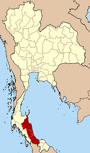 Map of Thailand showing the extent for the Monthon Nakhon Si Thammarat as of 1915.